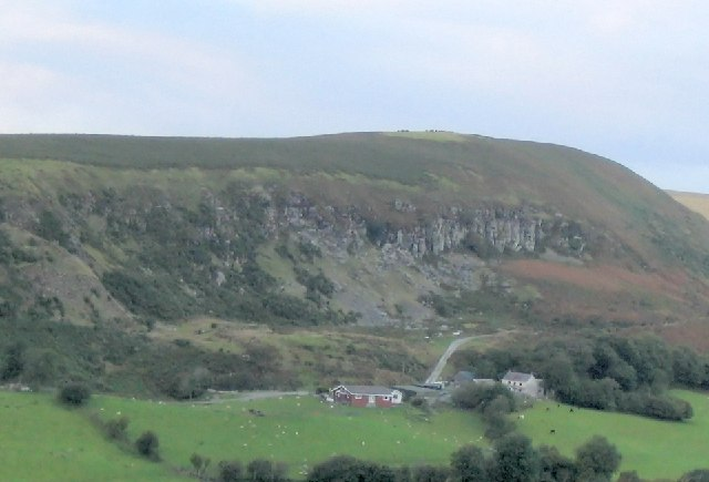 Gelli-gwm Rock. The exposed rocks are on the northwest side of the Dulais valley, as seen from the opposite side.